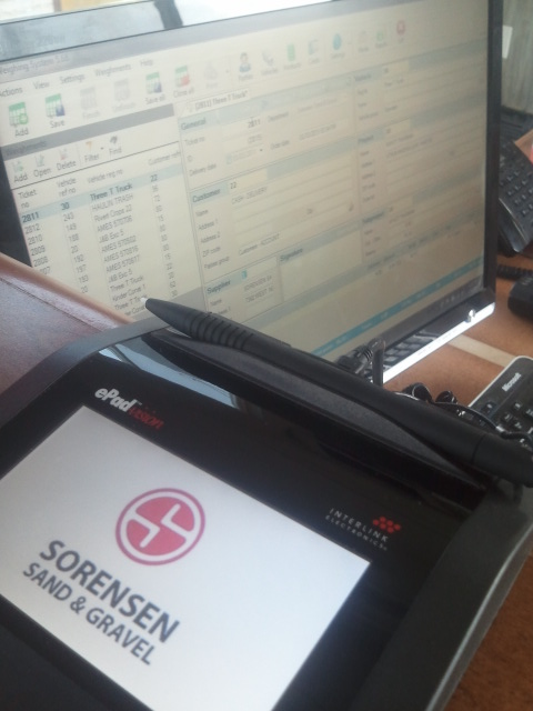 Gravel Pit: Sorensen Sand & Gravel Signature Pad: Epad Vision Weighing Software: Scaleit